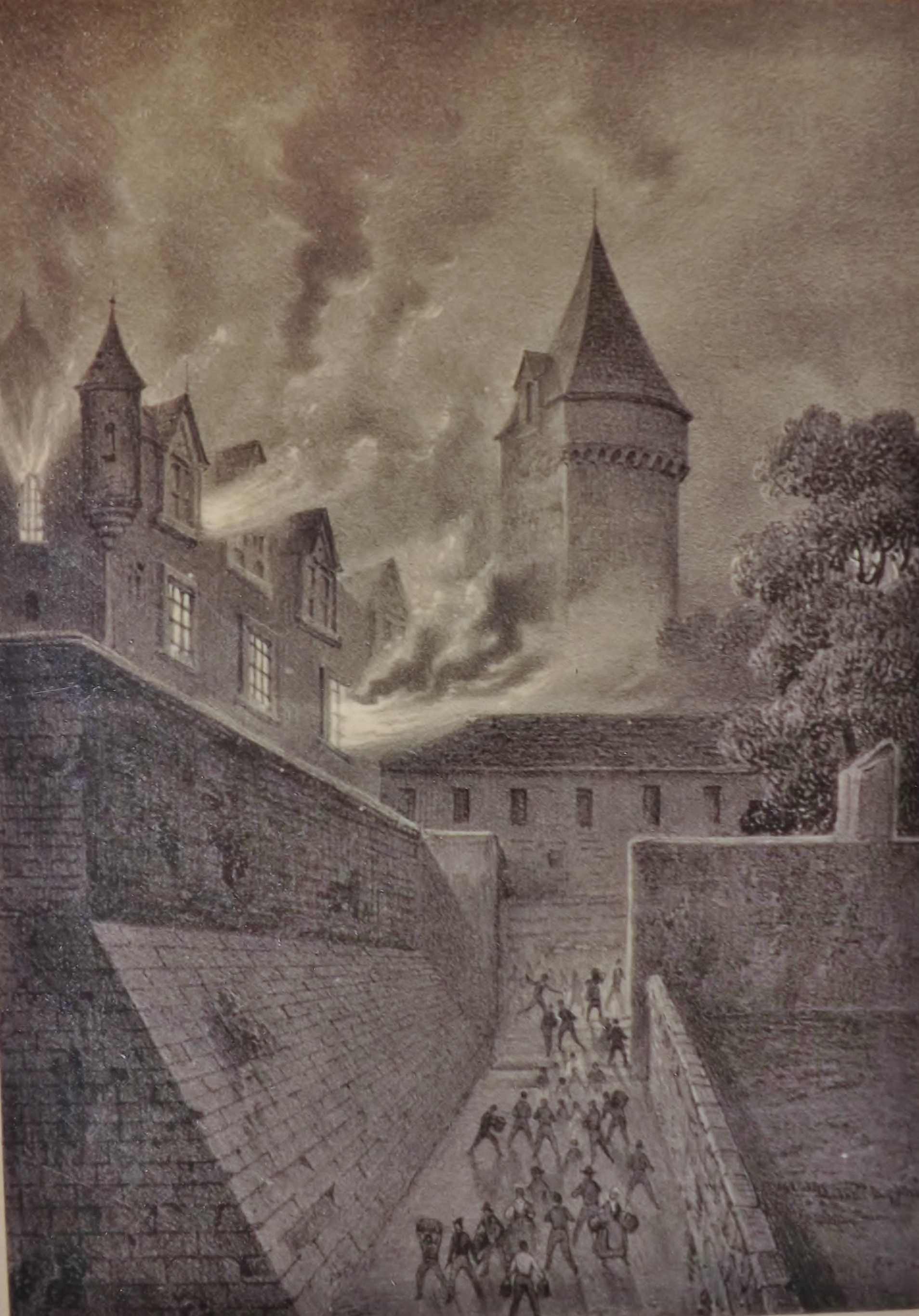 Sight of the city of Chambéry's castle burning, in 1743.